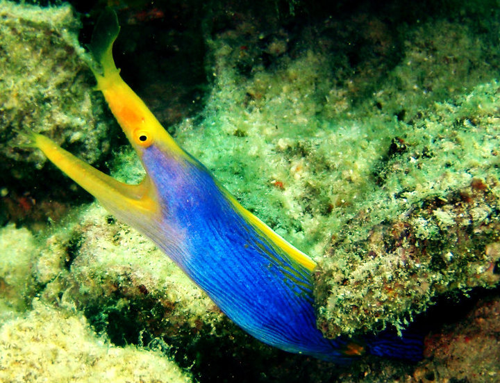 Blue ribbon Eel fish on Pom Pom Island, Celebes resort, Sabah